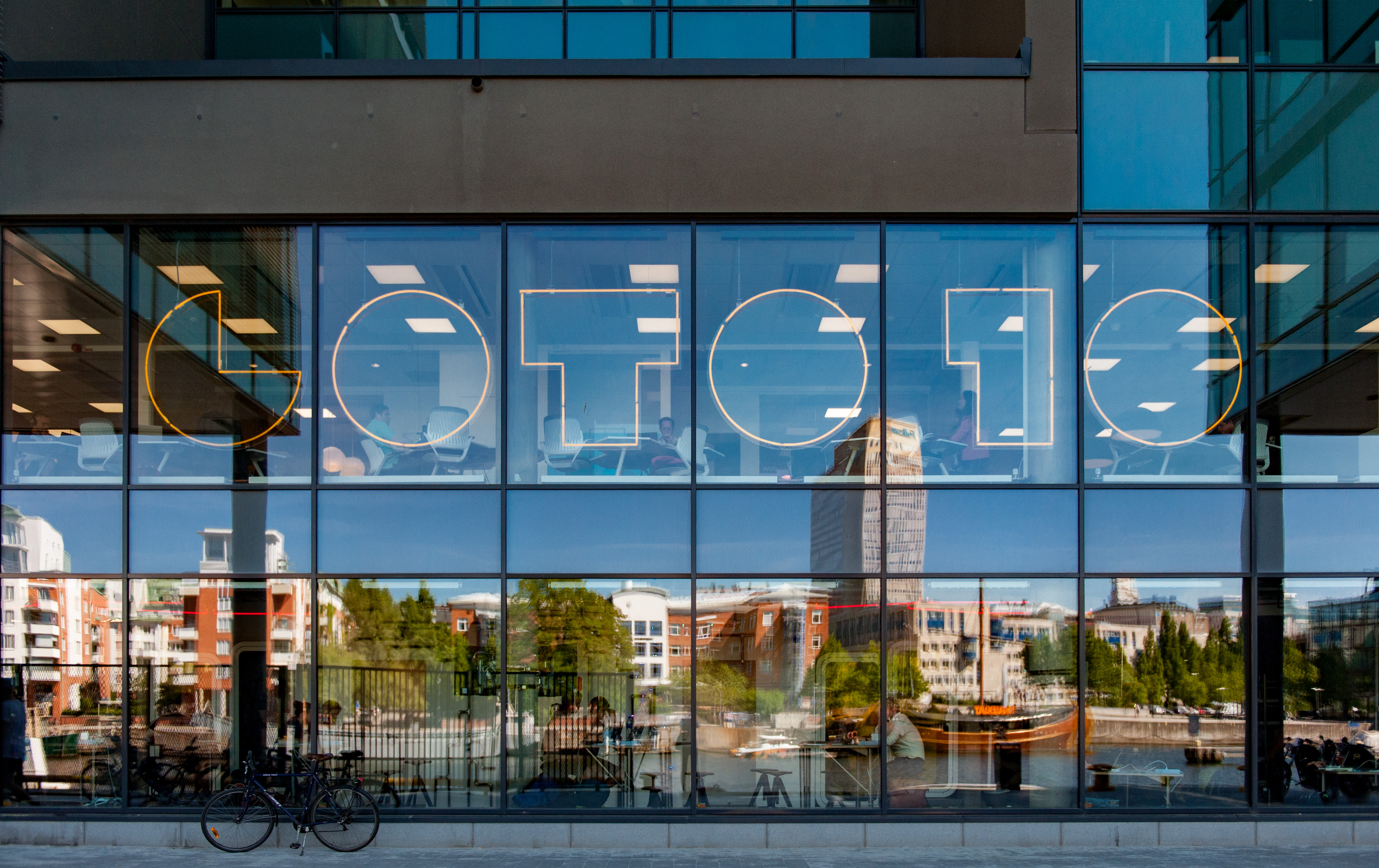 View of Goto 10 in Stockholm, Sweden, May 2018